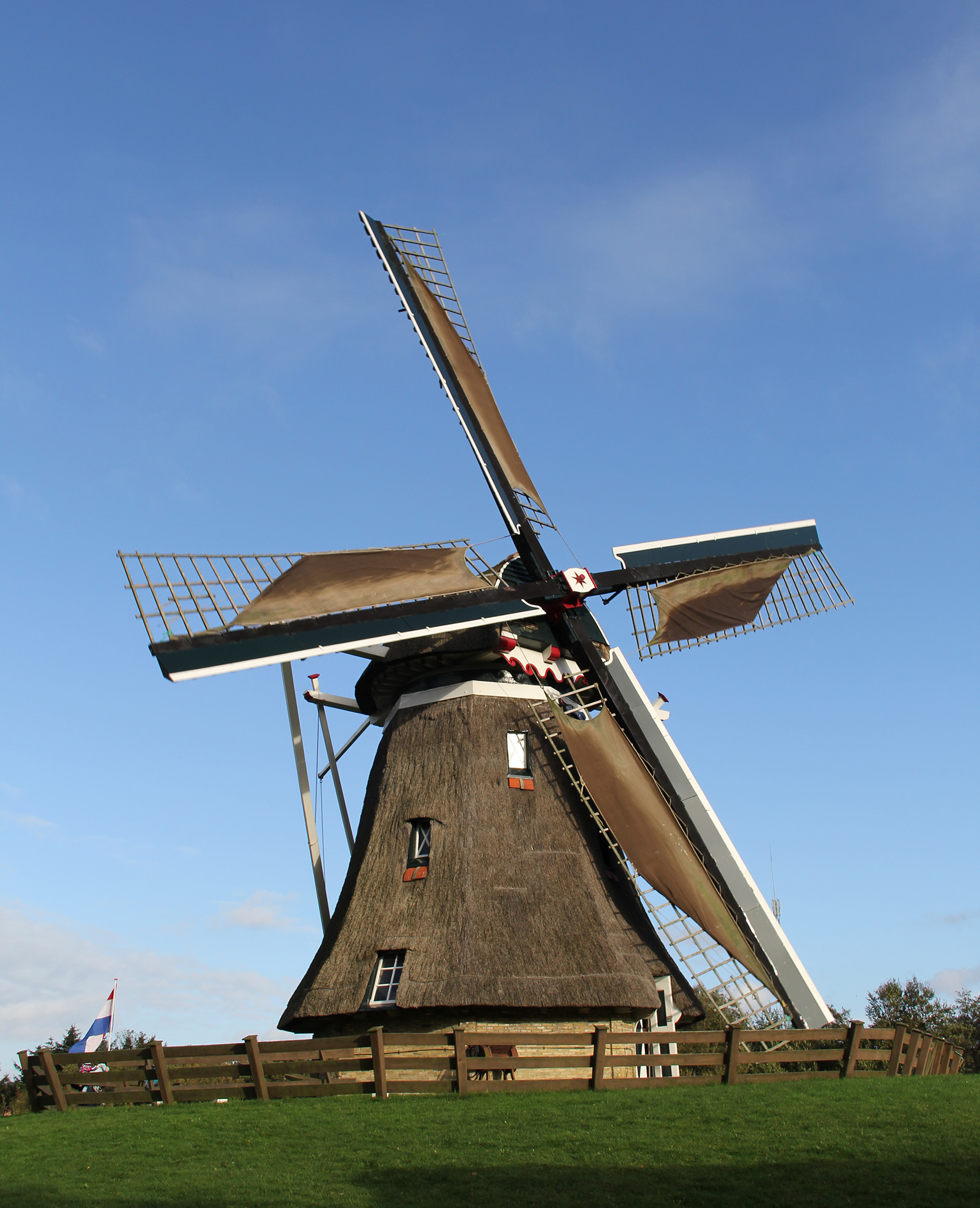 "The Phoenix" near Nes, Ameland in 2013